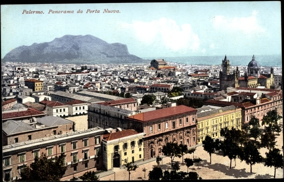 Palermo